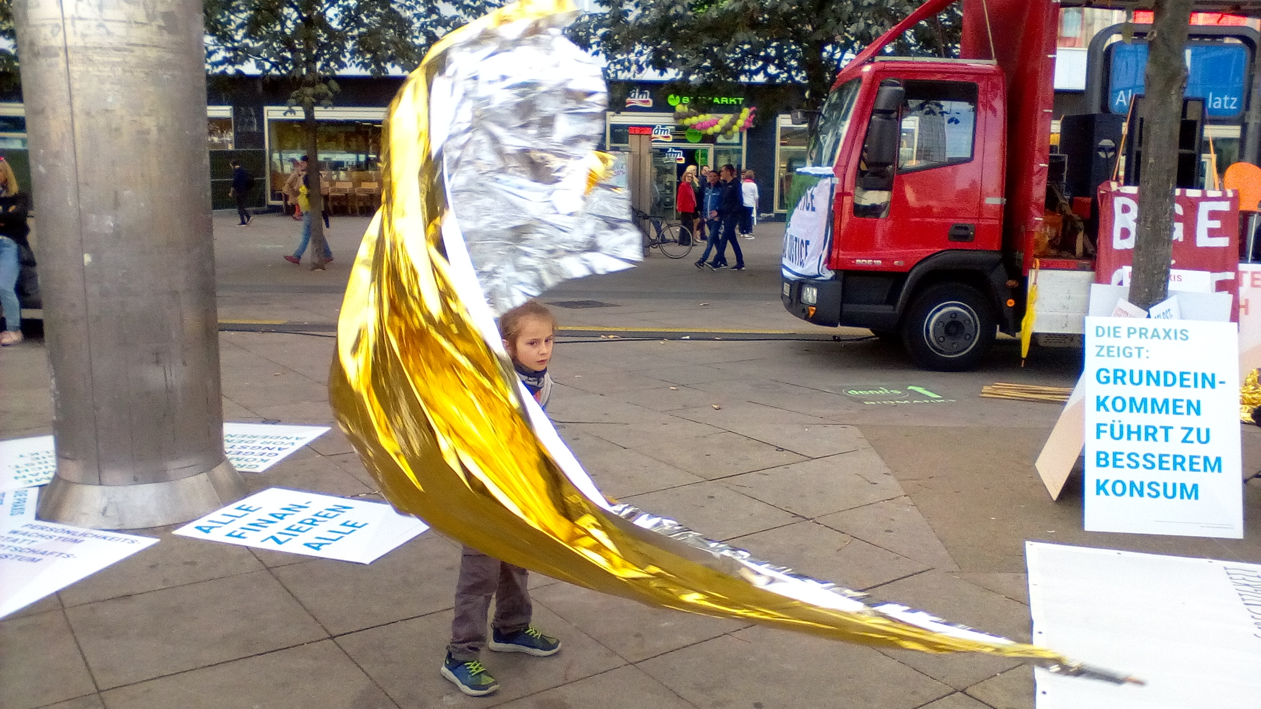 A child waves a flag at a universal basic income advocacy event in Berlin. Approximately 150 to 200 people marched in the German capital on October 26, 2019, in support of universal basic income, walking from Alexanderplatz to the Brandenburg Gate. Thousands of other people marched in more than 20 cities worldwide.